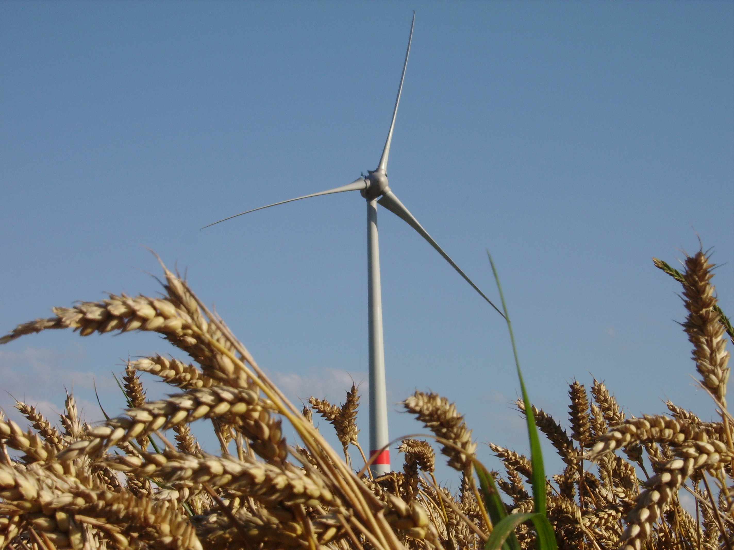 EDF Luminus wind farm at Dinant-Yvoir